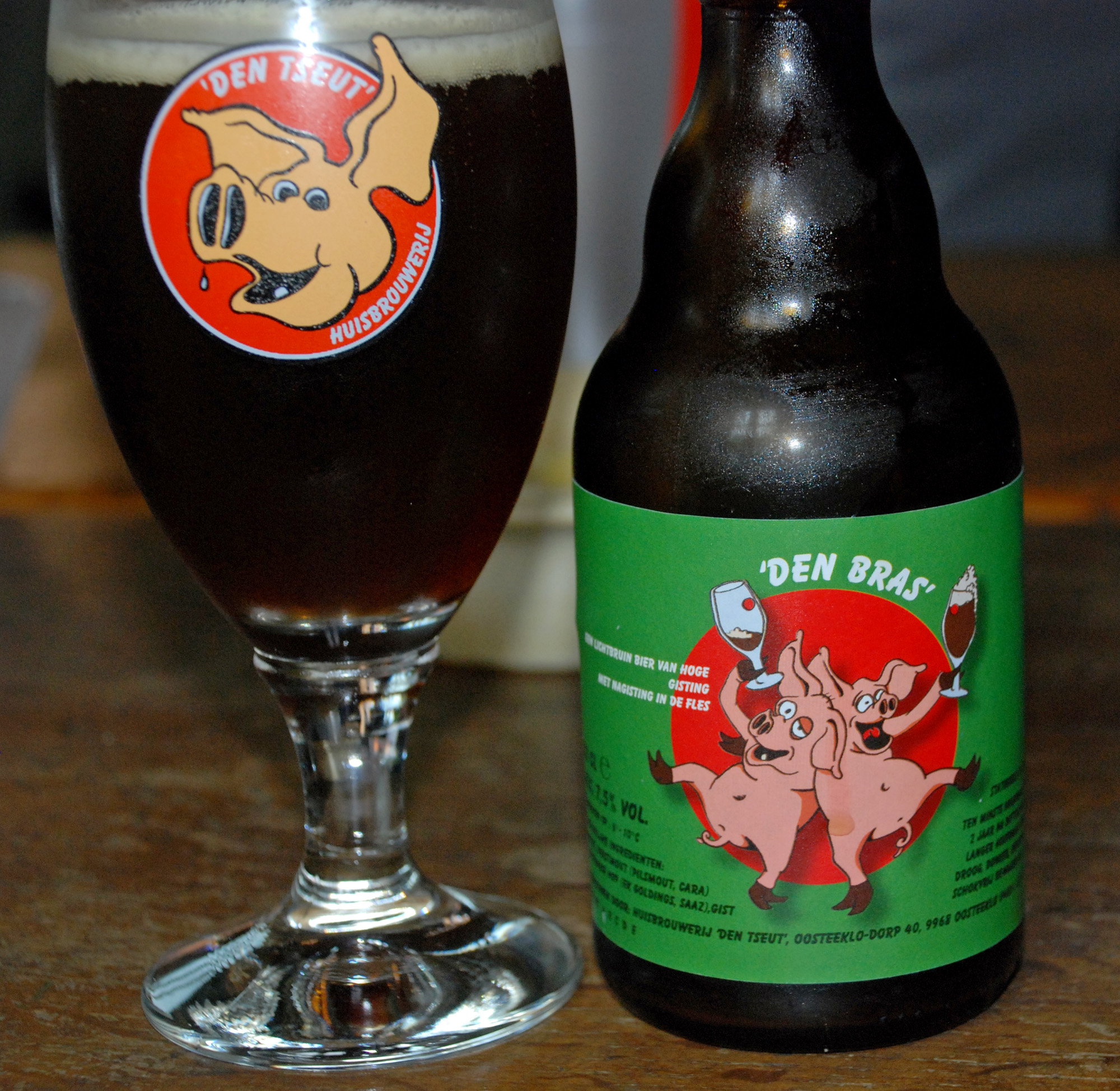 Den Bras Belgisch bier